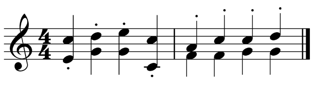 Show staccato dots on notes to clarify scope.